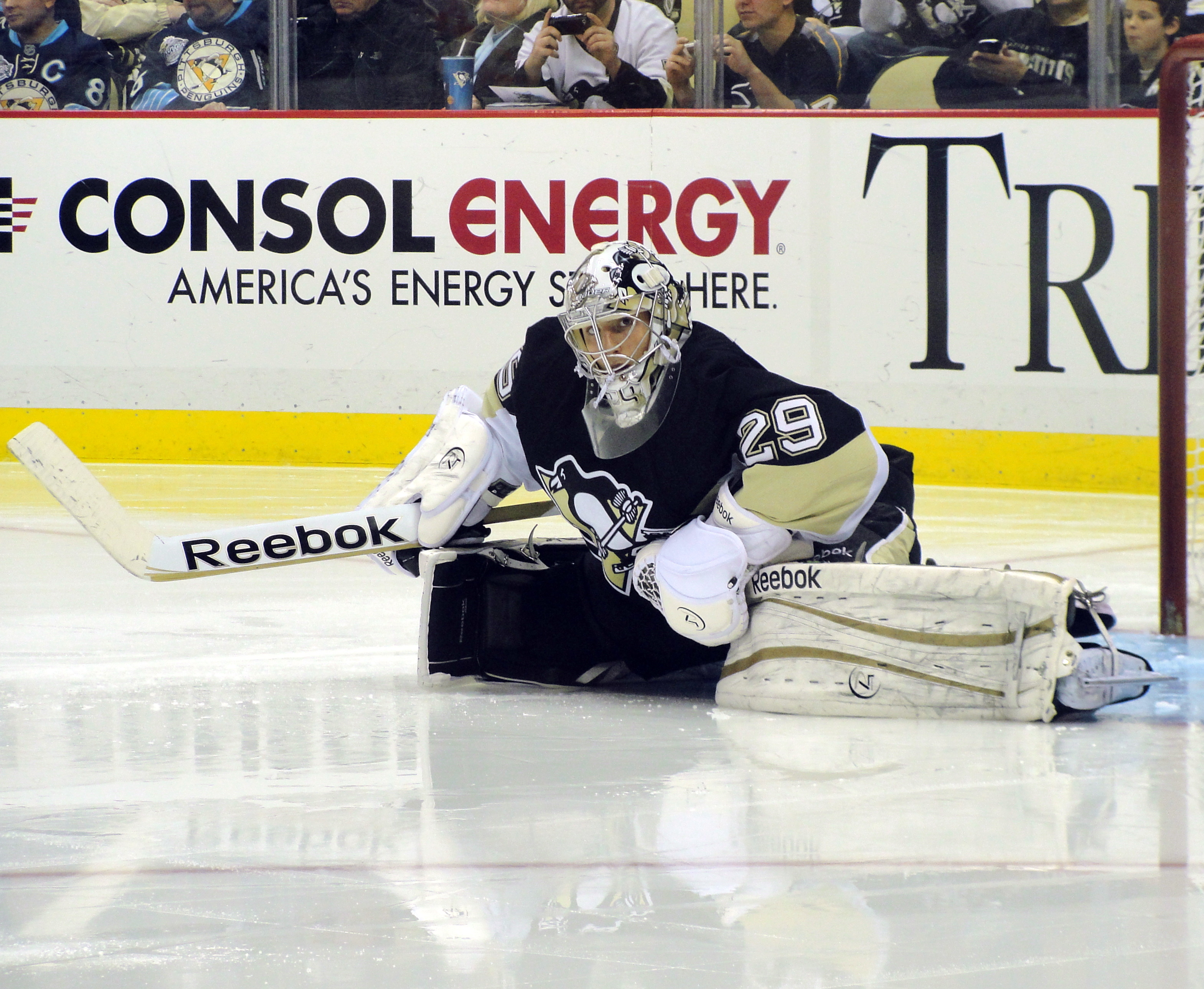 Pittsburgh Penguins goaltender Marc-André Fleury prepares for the second period in a December 29, 2011 game against the Philadelphia Flyers at Consol Energy Center in Pittsburgh, PA.